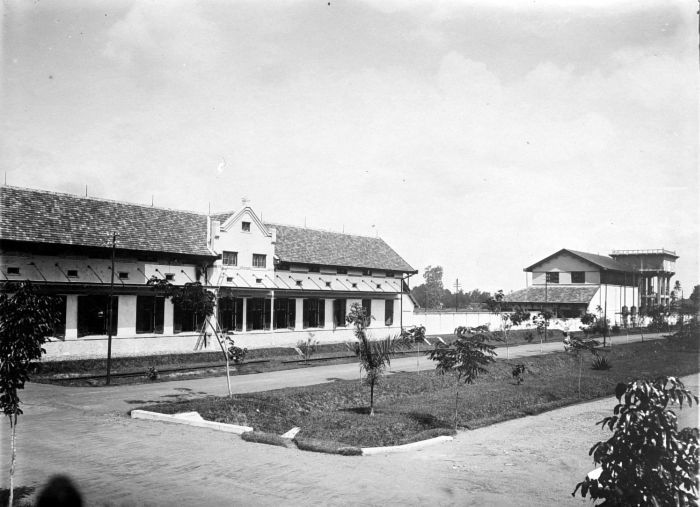 Offices, powerstation and high-reservoir of the Central Working-hall of the N.I.S. (Dutch-East Indies Railway Company) in Yogyakarta